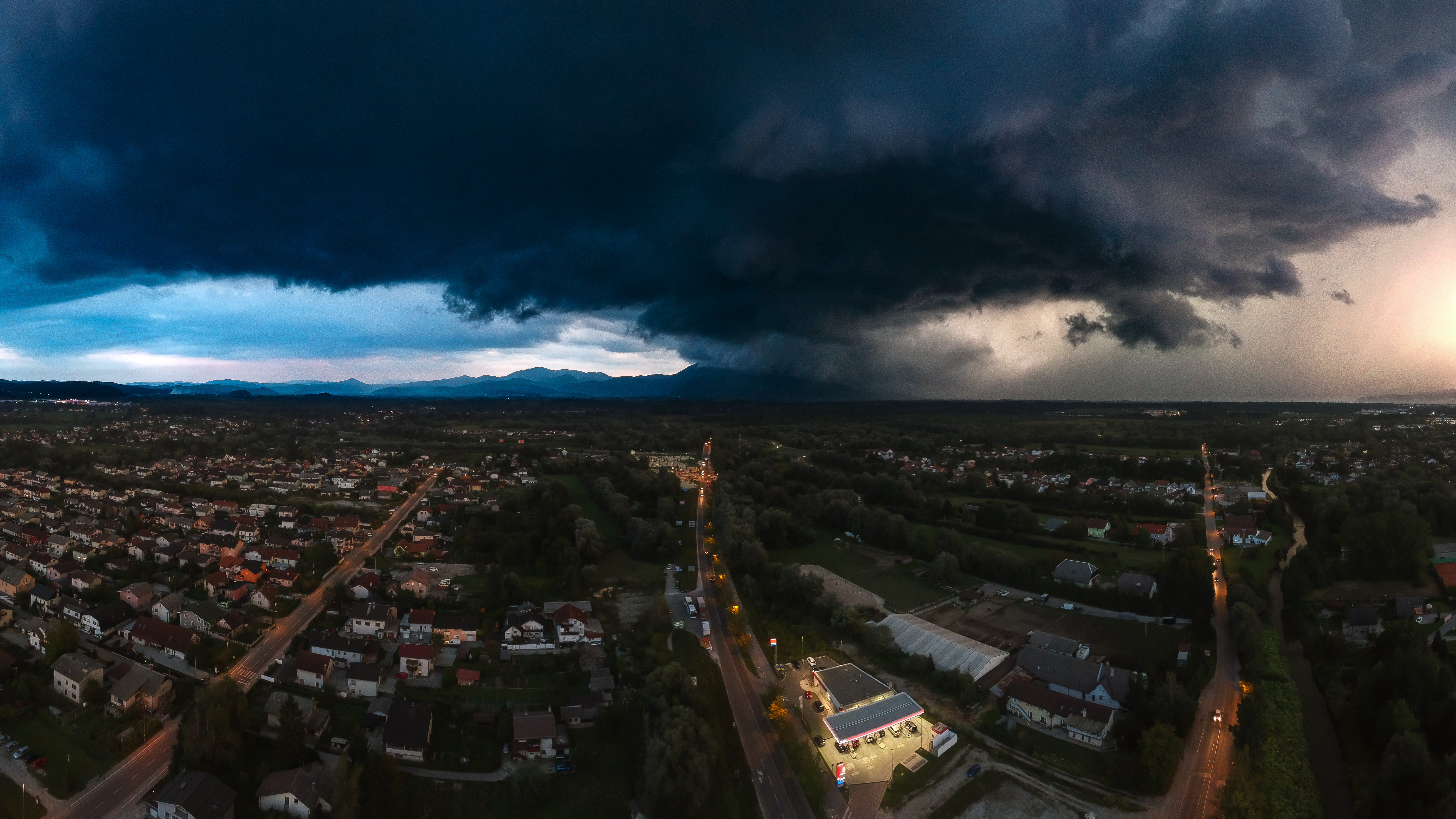 Aerial view across the district of Rakova Jelša, Ljubljana, towards the edge of the Ljubljana marsh (south)